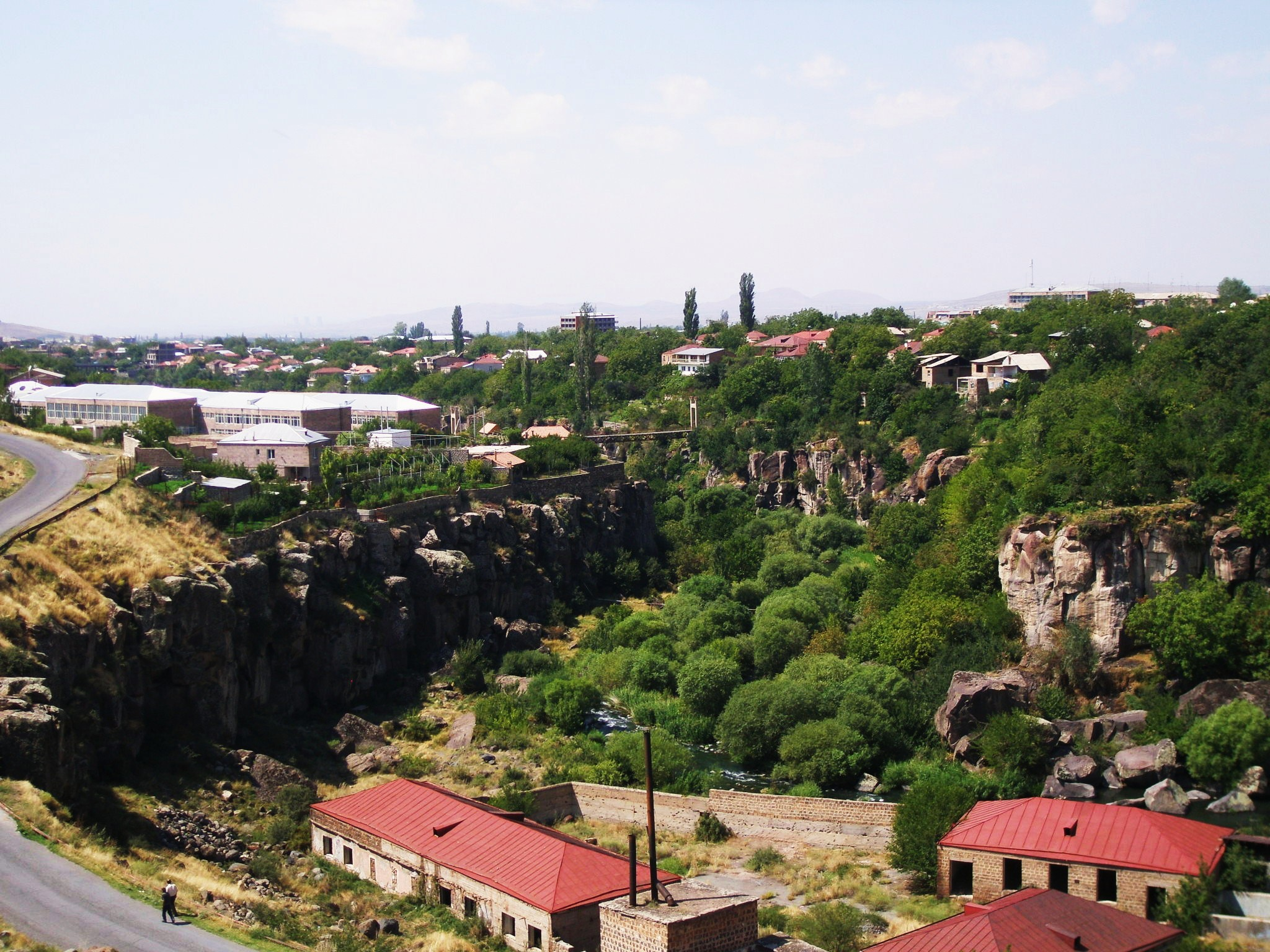 Ashtarak and ravine